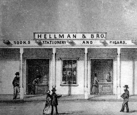 An 1857 sketch of Isaias W. Hellman's first store in Los Angeles. He would become a very successful banker, president of Wells Fargo Bank and a co-founder of the University of Southern California. It was located at Temple and Main streets.